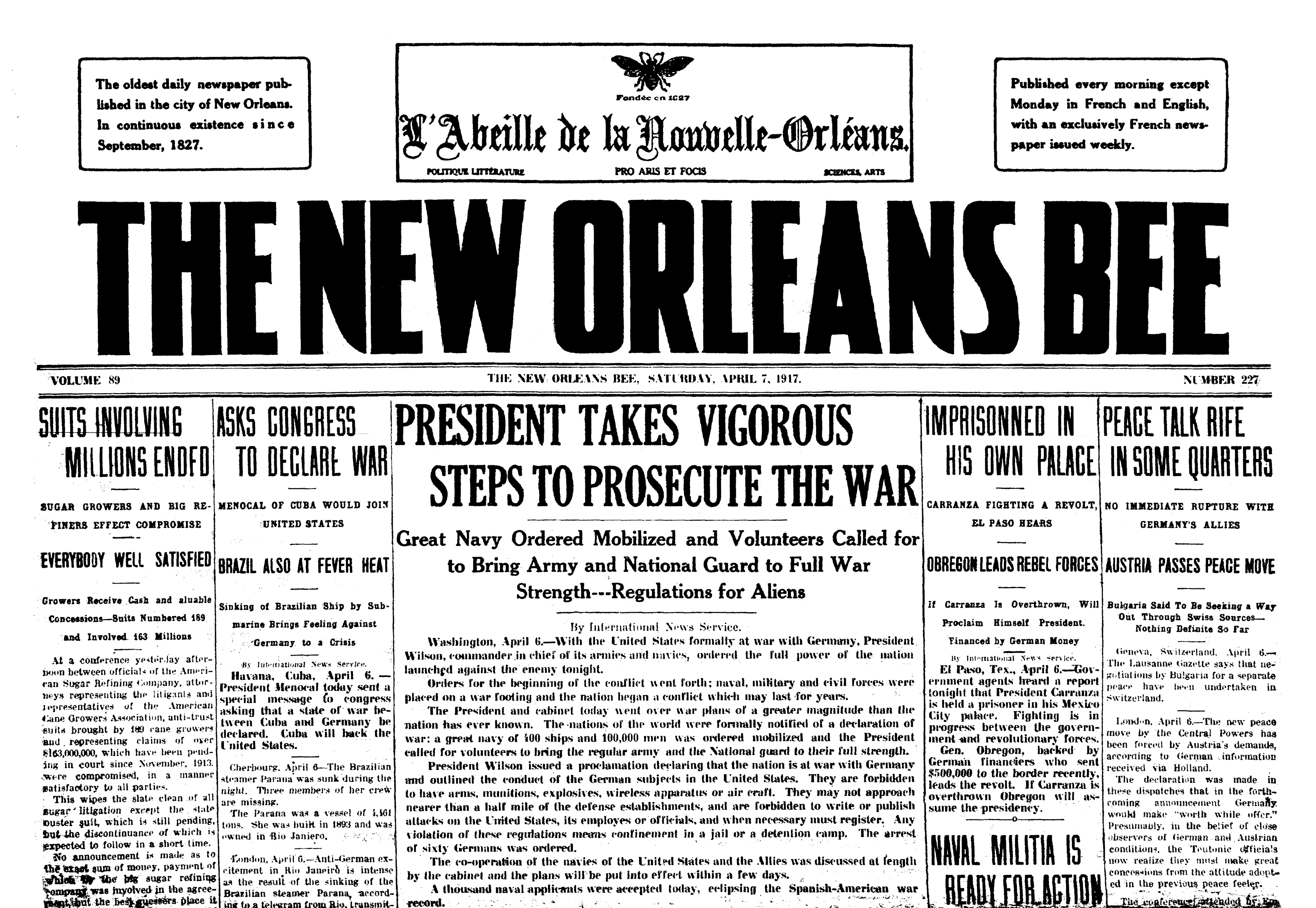 Front cover of the New Orleans Bee newspaper dated April 7th 1917, reporting the U.S. entry into the First World War.